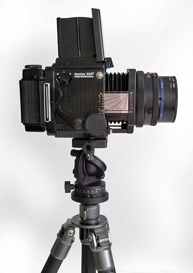 RZ67 Professional body on a Gitzo G1258 tripod, Acratech ballhead, 110mm f2.8 lens, 120 film back and a folding waist level viewfinder.